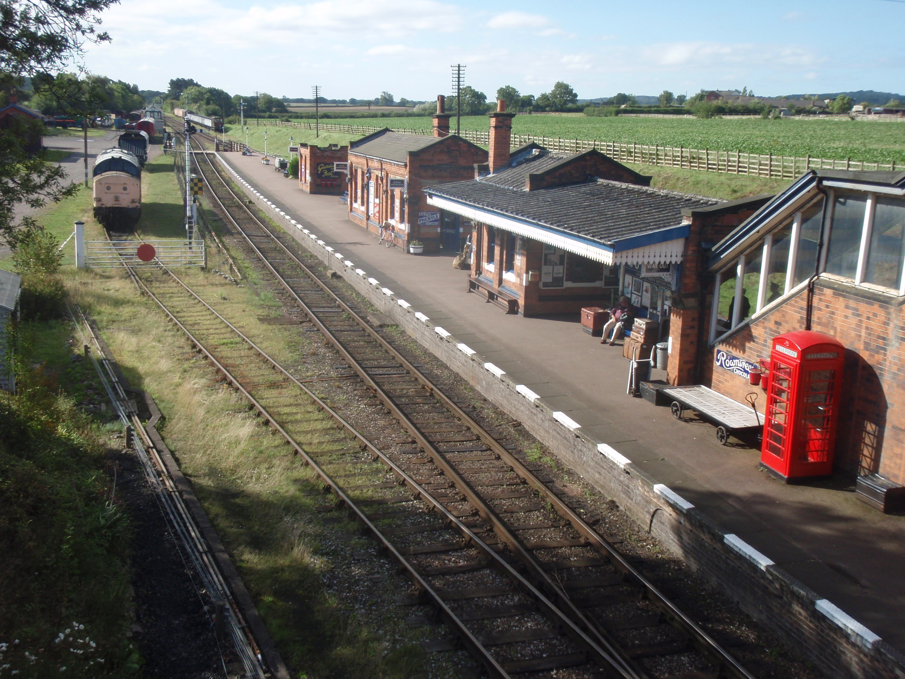 Picture taken by Thomas Willson. Monday, 30 August, 2010.